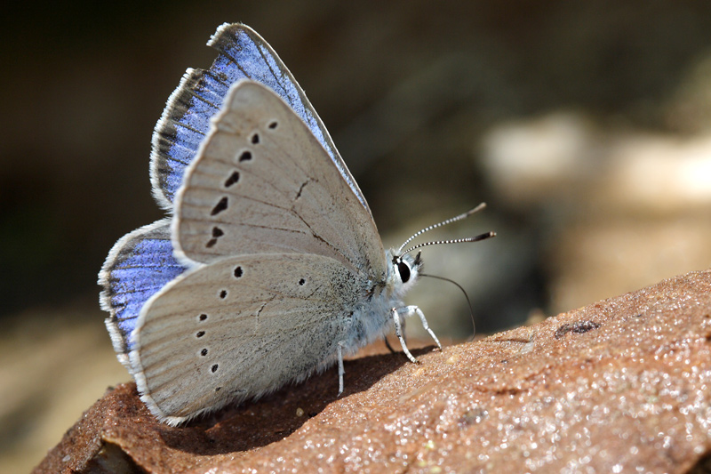 Iolana iolas farriolsi. Sant Llorenç del Munt Park, Catalonia. June 2009.